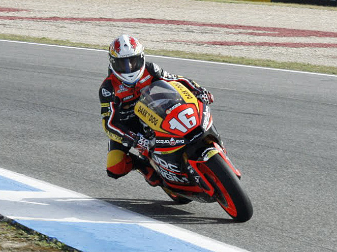 Jules Cluzel 2011 Estoril